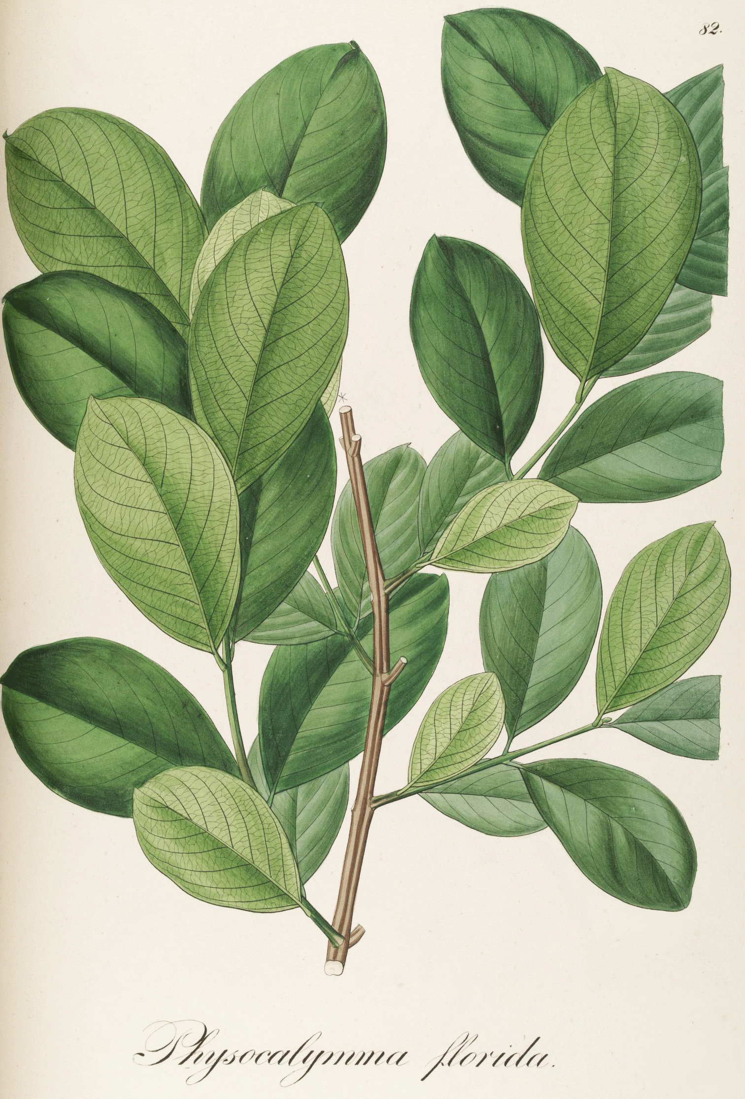 Plate from book, Physocalymma scaberrimum